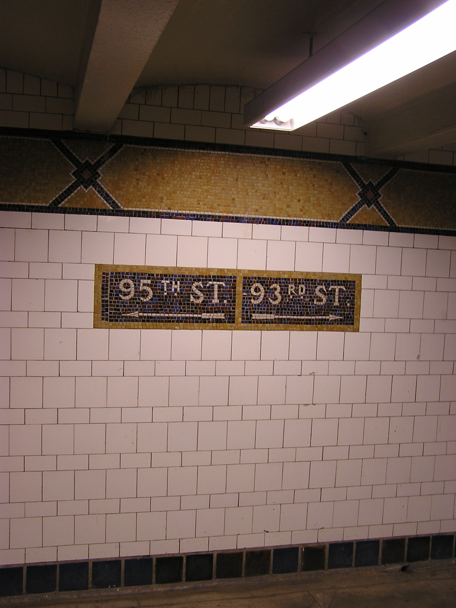 Bay Ridge–95th Street (BMT Fourth Avenue Line) exits mosaic